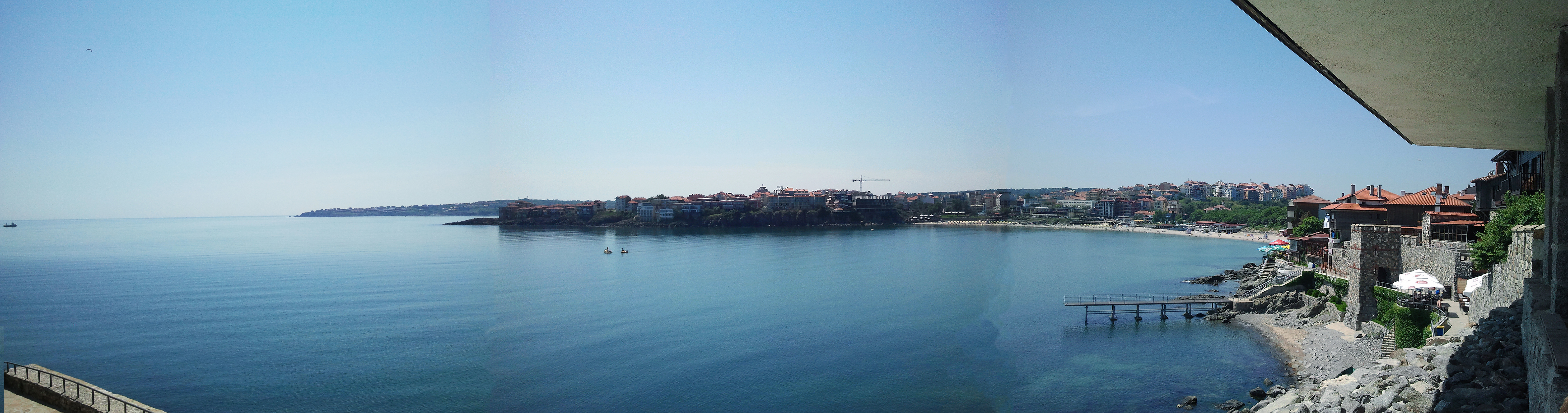 Sozopol 2012.05.03